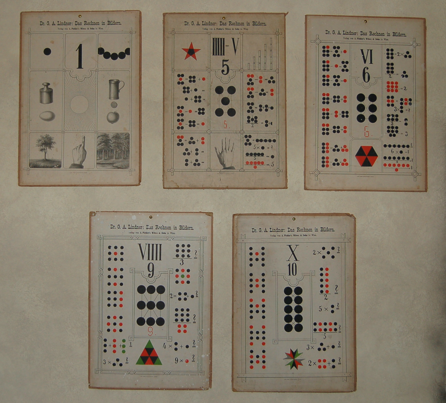 Chart for mathematics lessons, Michelstetten School Museum.